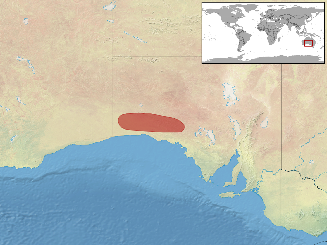 geographic distribution of Diporiphora linga (Native: Australia (South Australia))